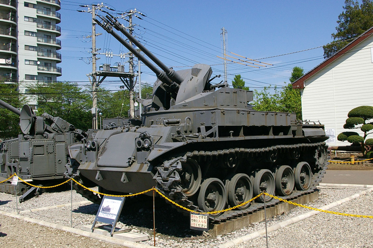 Taken by Los688,29-Apr-2007,JGSDF Camp-Shimoshizu.JGSDF M42 AAA,Air Defence Artillery School.PD-self. ja:2007年4月29日、投稿者撮影。陸上自衛隊下志津駐屯地。M42 自走40mm機関砲、高射学校敷地内展示。